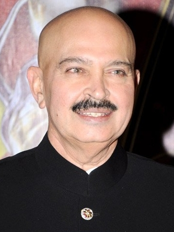 Rakesh Roshan at 1st Global Indian Film & Television Honors 2011